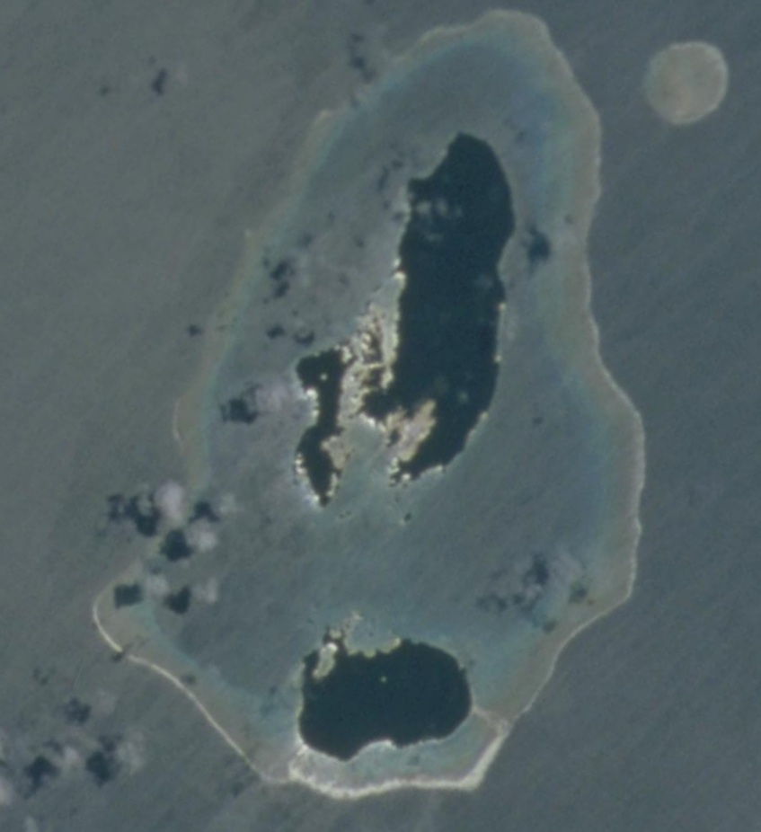 NASA astronaut image of Ogea or Ongea islands, Lau Archipelago, Fiji